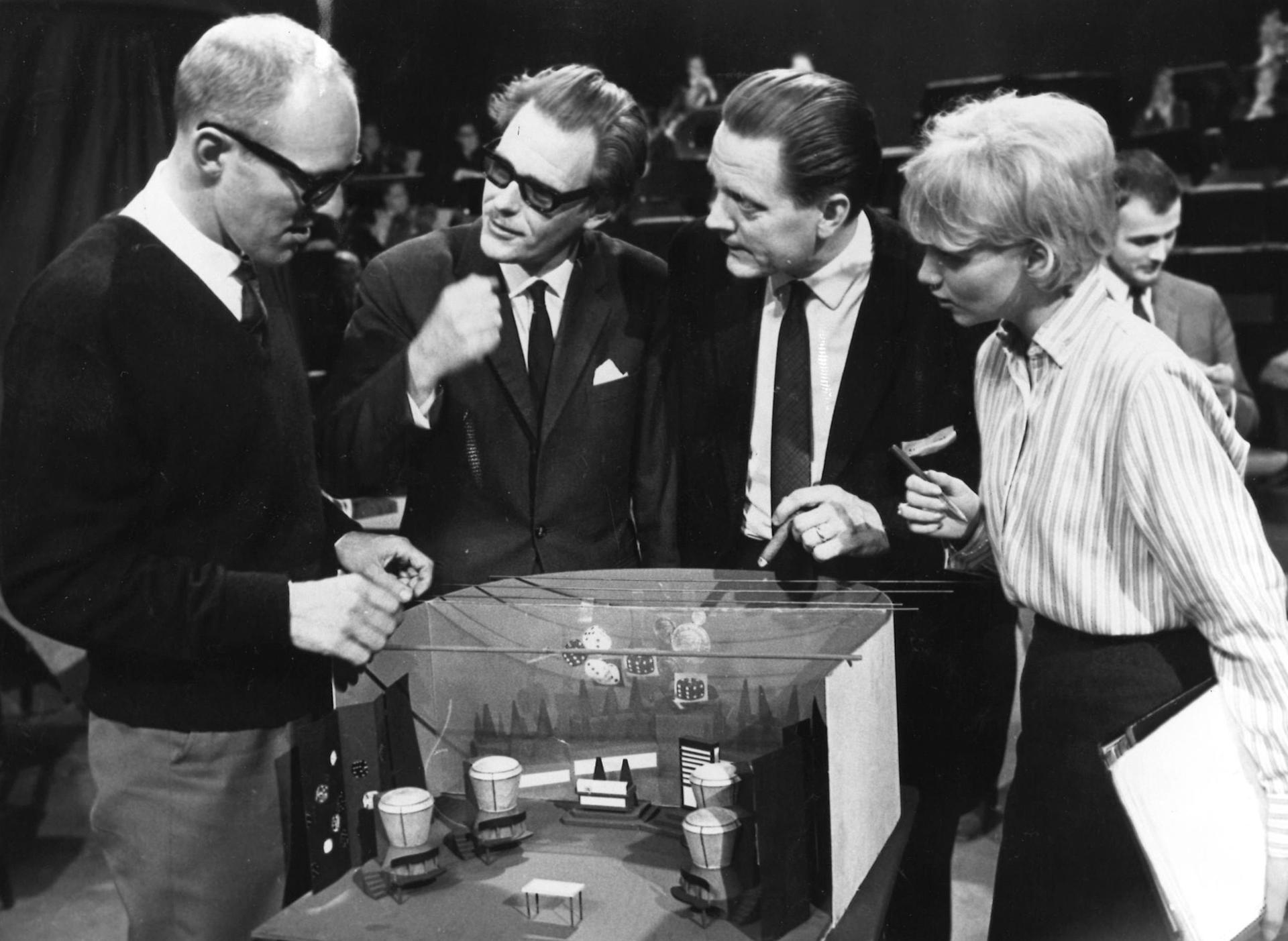 Photograph of the miniature set of the Nordic TV quiz "Arpa on heitetty", with Lasse Boberg, Carl Mesterton, Poppe Berg and Monica Weinzierl (from the left).